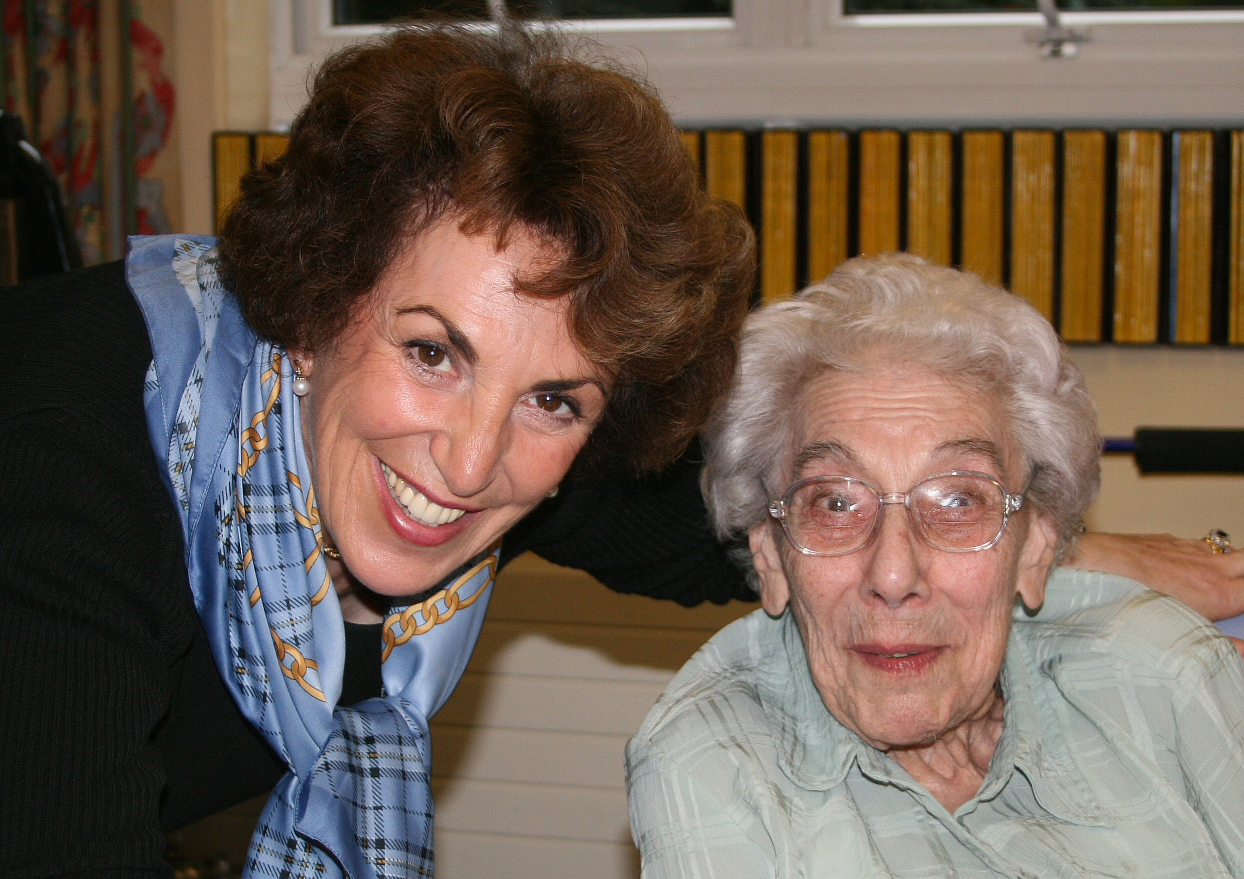 Edwina Currie and resident at Nightingal House, London, 2009